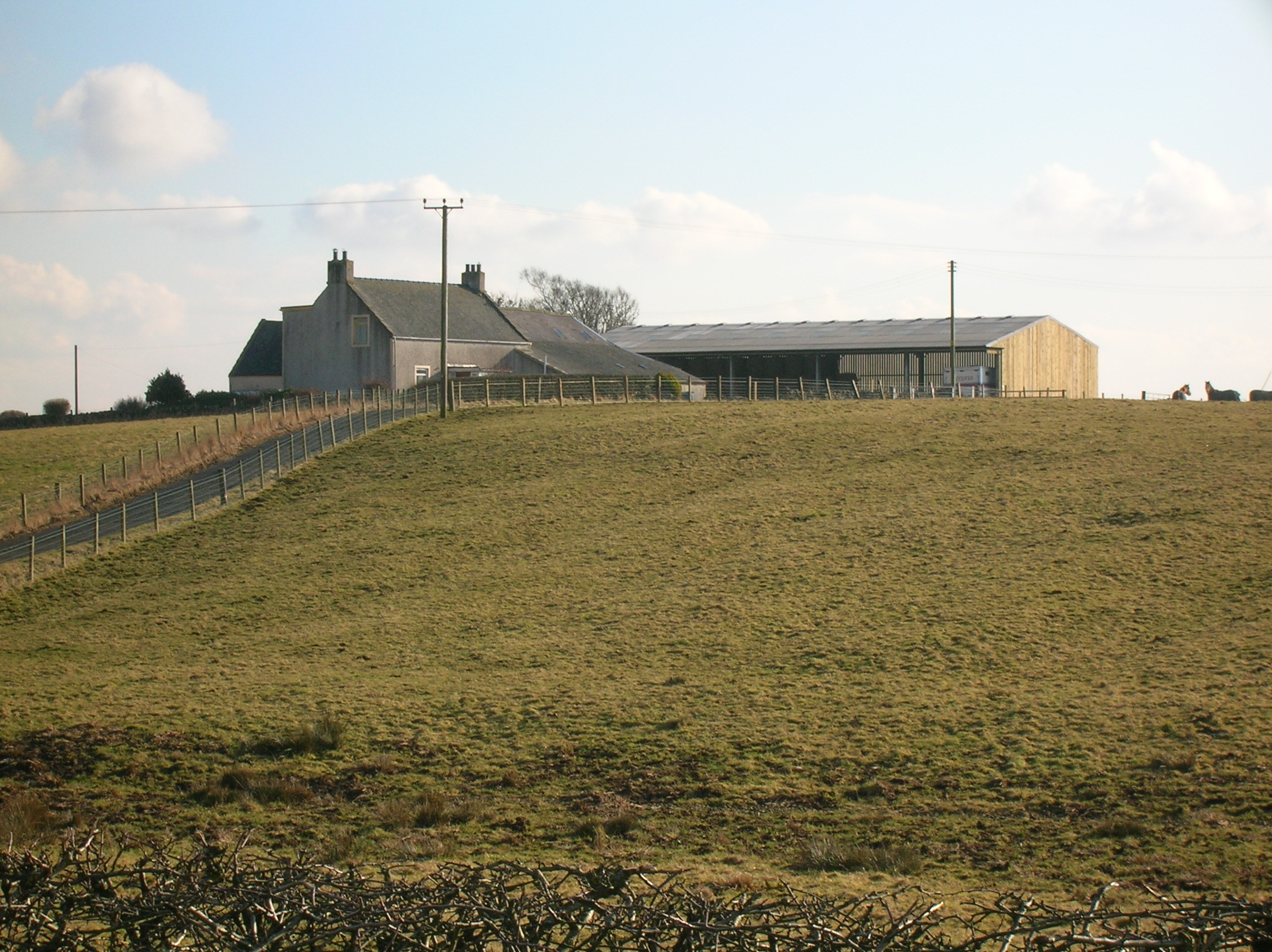 Borestone Farm, Greenhills, North Ayrshire, Scotland.